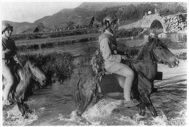 Republic of China Ma Jia Jun (Ma Family Army) muslim cavalry of the National Revolutionary Army under General Ma Bufang. They fought for the Kuomintang against Japan.